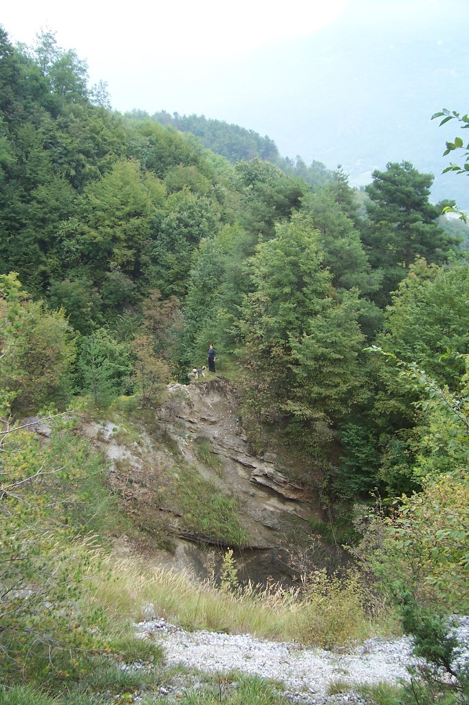 Dolina, Ono San Pietro, Val Camonica